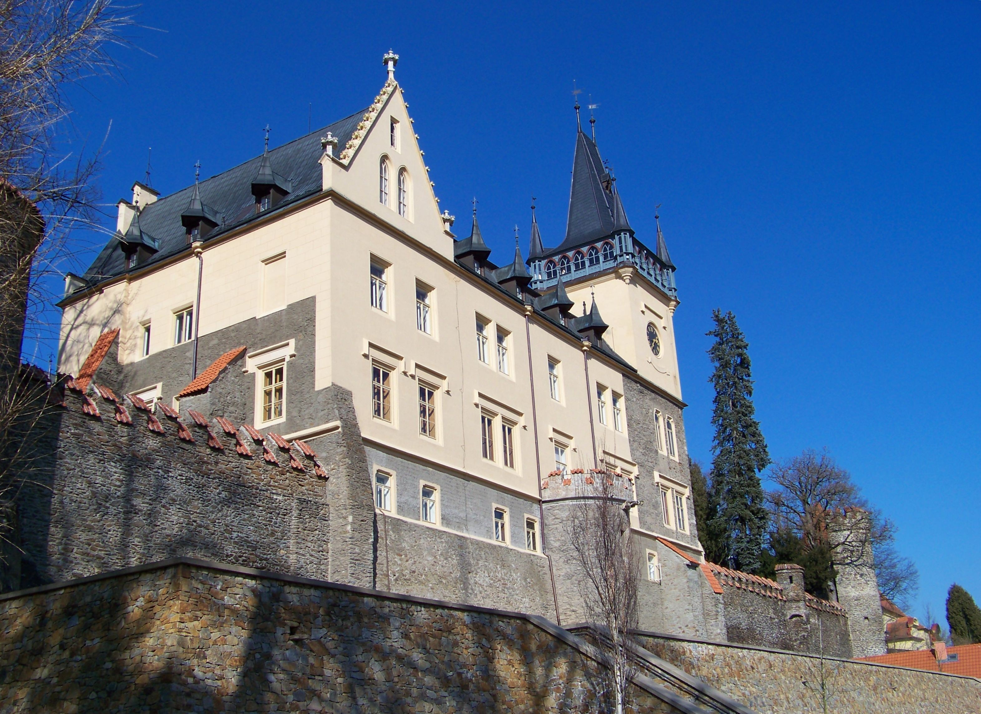 Zruč nad Sázavou, Kutná Hora District, Central Bohemian Region, the Czech Republic. The castle.